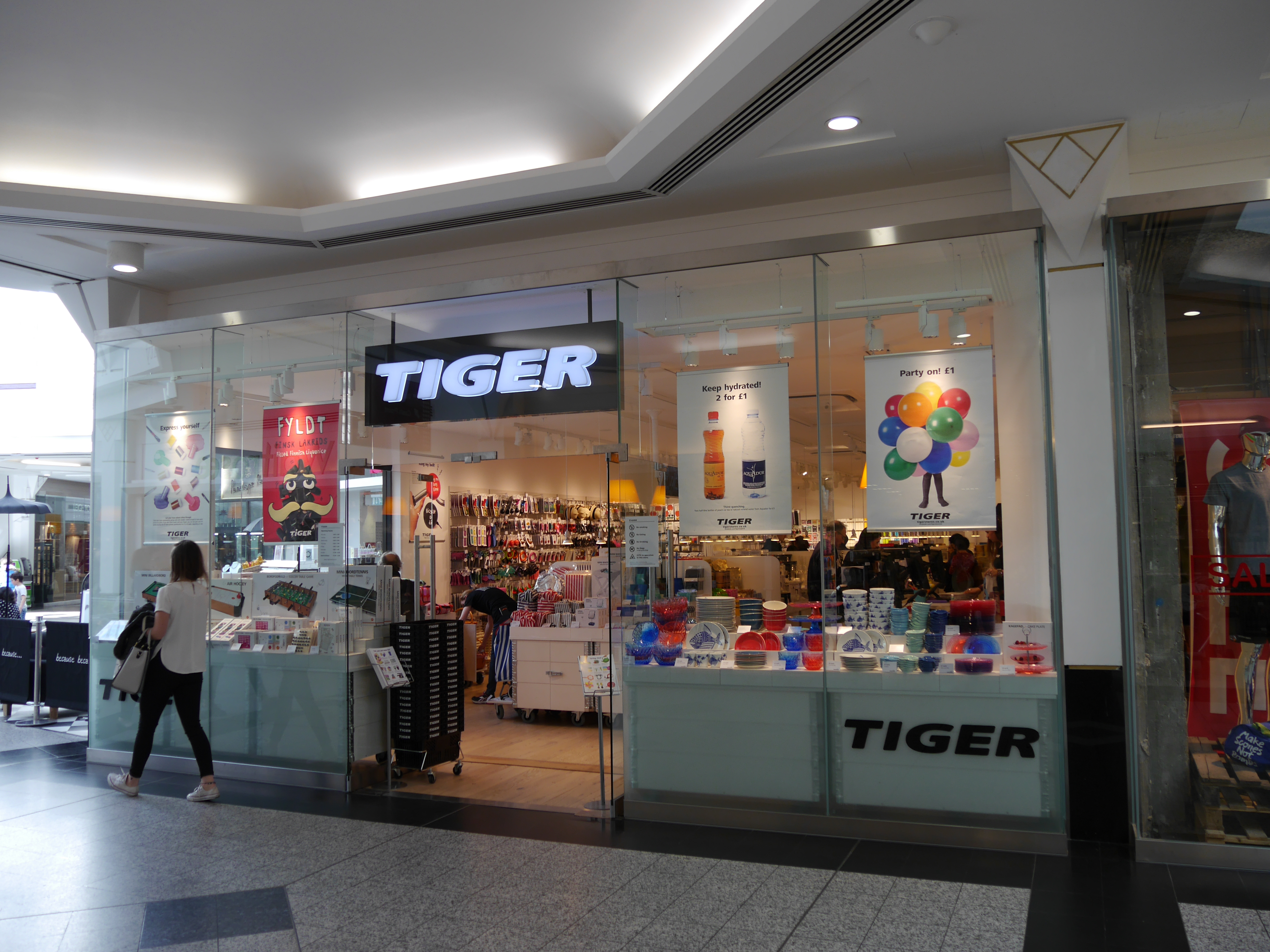 Tiger store, Putney, London